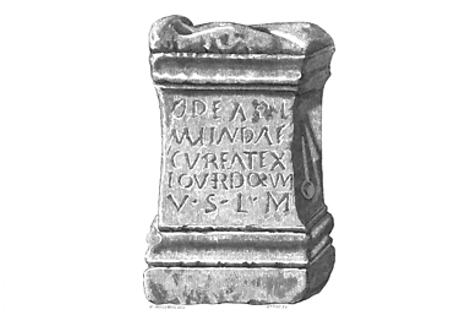 Altar dedicated to Sattada, find date 1835. Find in Beltingham churchyard, 3,2 km south-east of Vindolanda. Formerly in the Black Gate, later transferred to the Museum of Antiquities, Newcastle upon Tyne, now modern location is in the Great North Museum: Hancock.